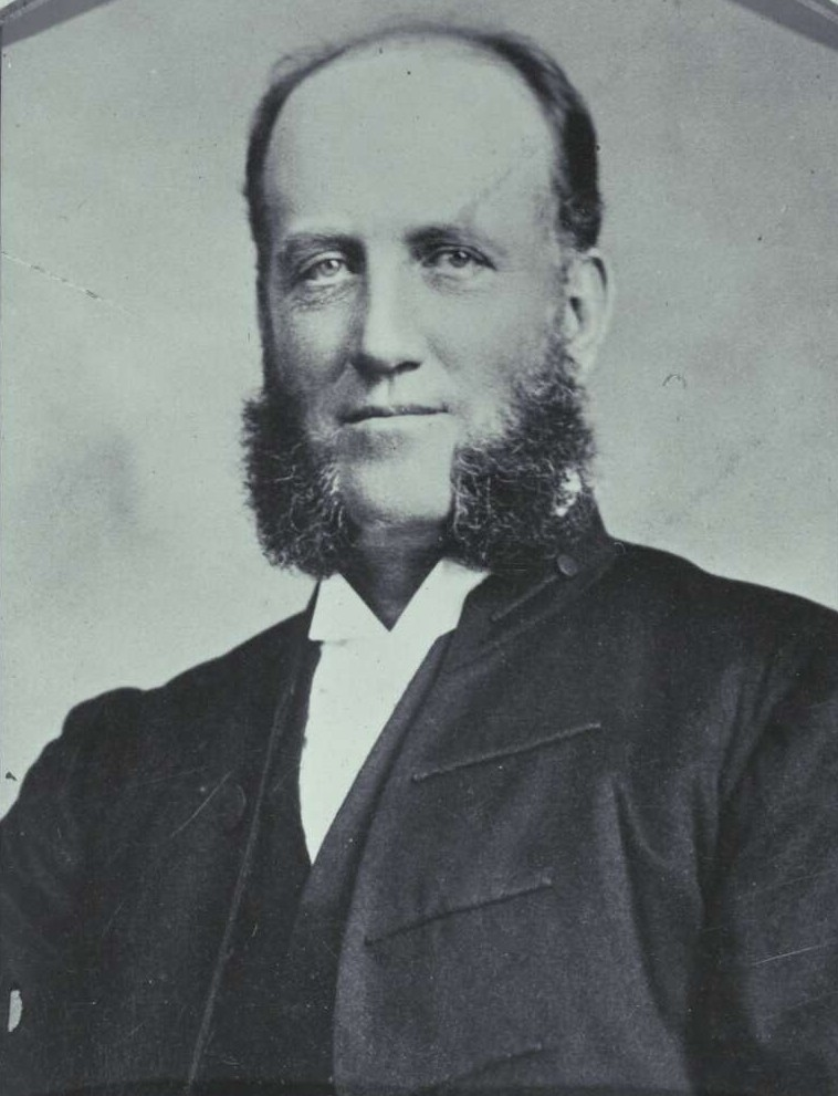 Joseph Palmer Abbott From the 1898 Australasian Federal Convention Album.